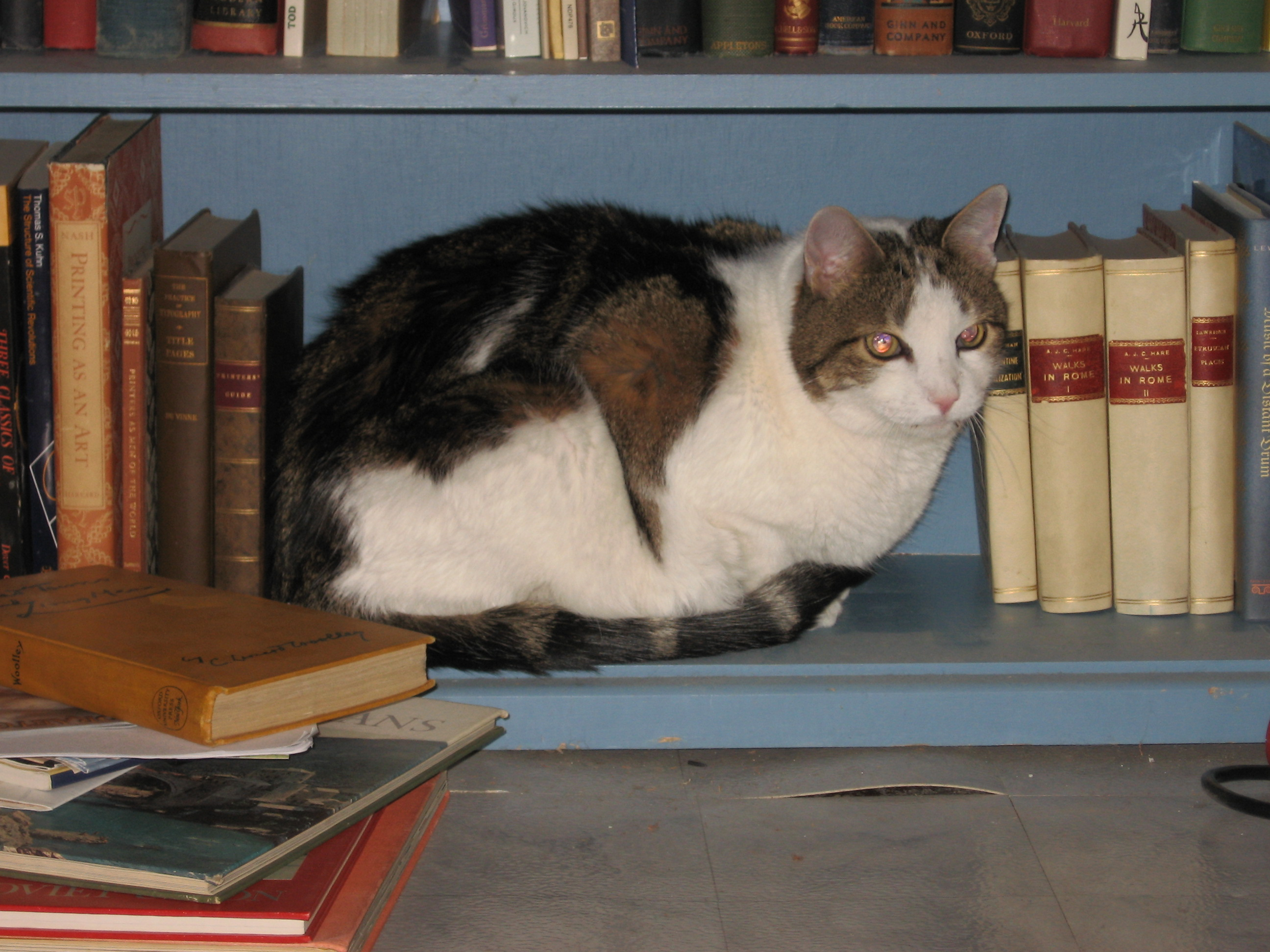 Cat sitting in a bookshelf